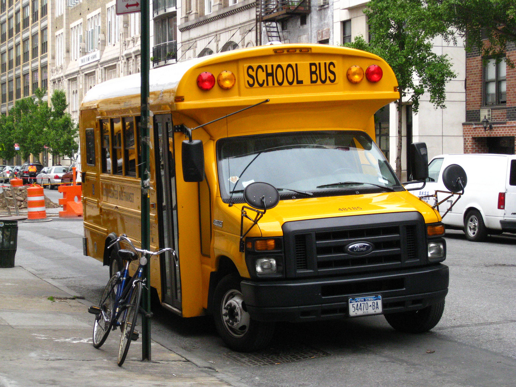 Type A school bus (Trans Tech Model DW6158) with a 2008 Ford E-450 chassis. Photographed in New York, New York.